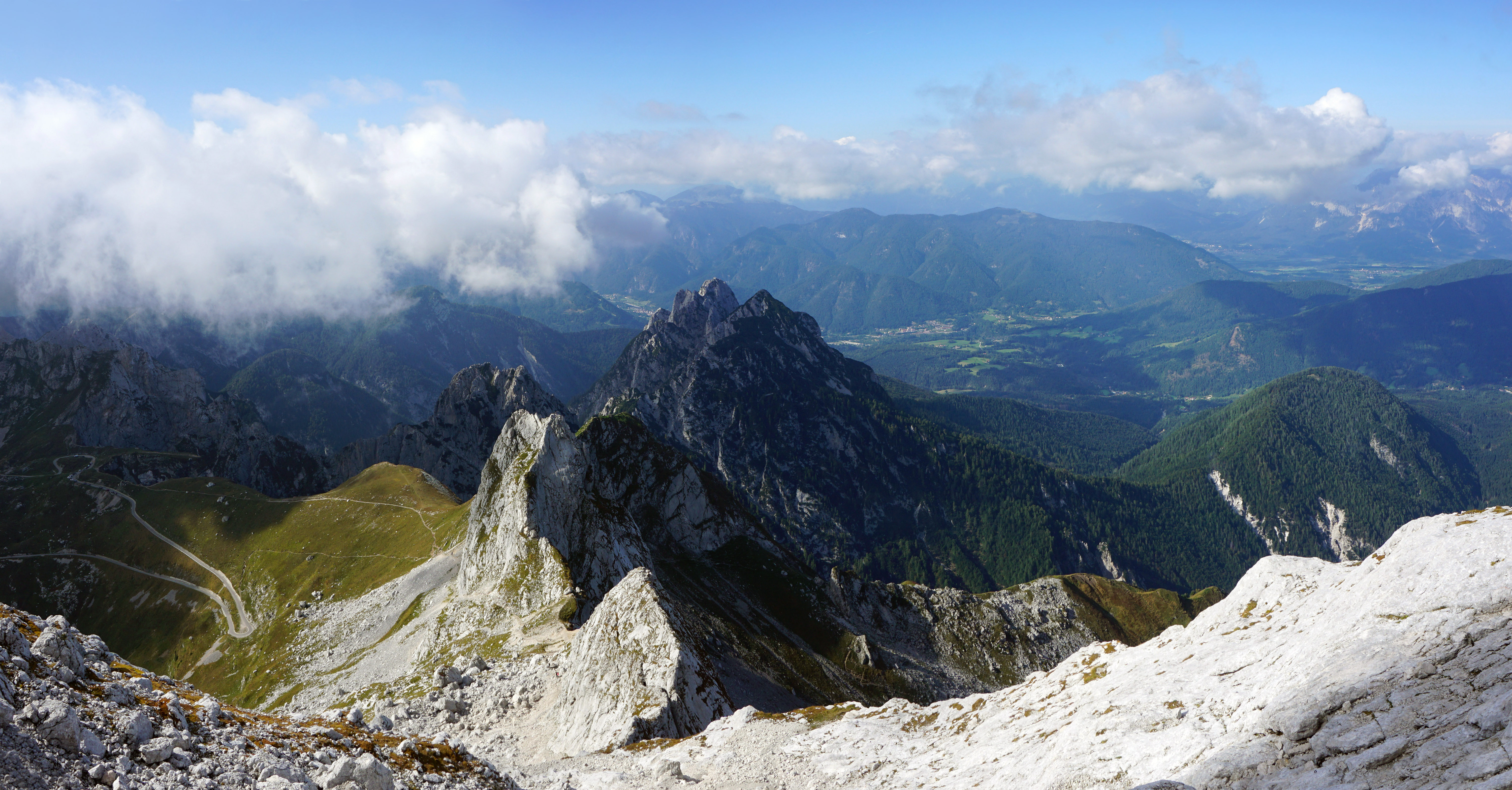 Panoramic view of Mangart Pass seen from the Via Ferrata trail going up to the mountain.